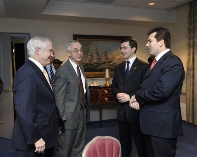 Robert Gates (left), Gordon England (2nd from left), Lazar Elenovski (second from right) and Fatmir Mediu (right).